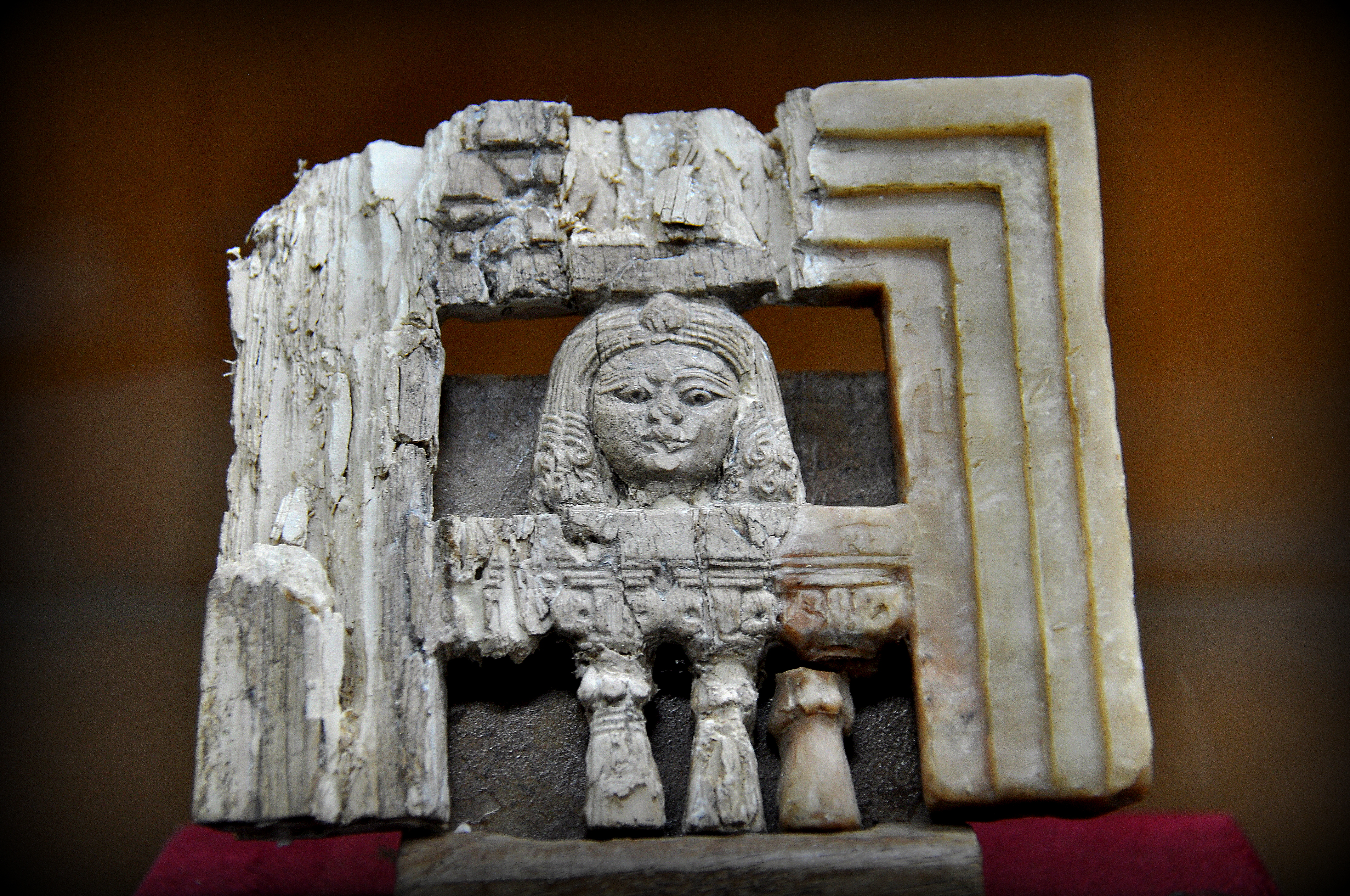 “Woman at the window” or “the lady of the window” is one of the most famous scenes in Phoenician ivory carving. The plaque shows a woman who looks out of a window, thought to be a sacred prostitute linked to the goddess Astarte or Ishtar. However, the exact significance of the scene is still unknown. Neo-Assyrian period, 9th-7th centuries BCE. From Nimrud, Mesopotamia, Iraq. The Sulaimaniyah Museum, Iraq.